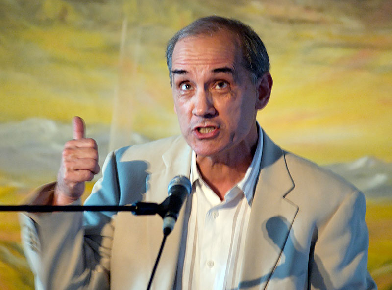 Dan Barker playing music at an atheist convention in Reykjavík